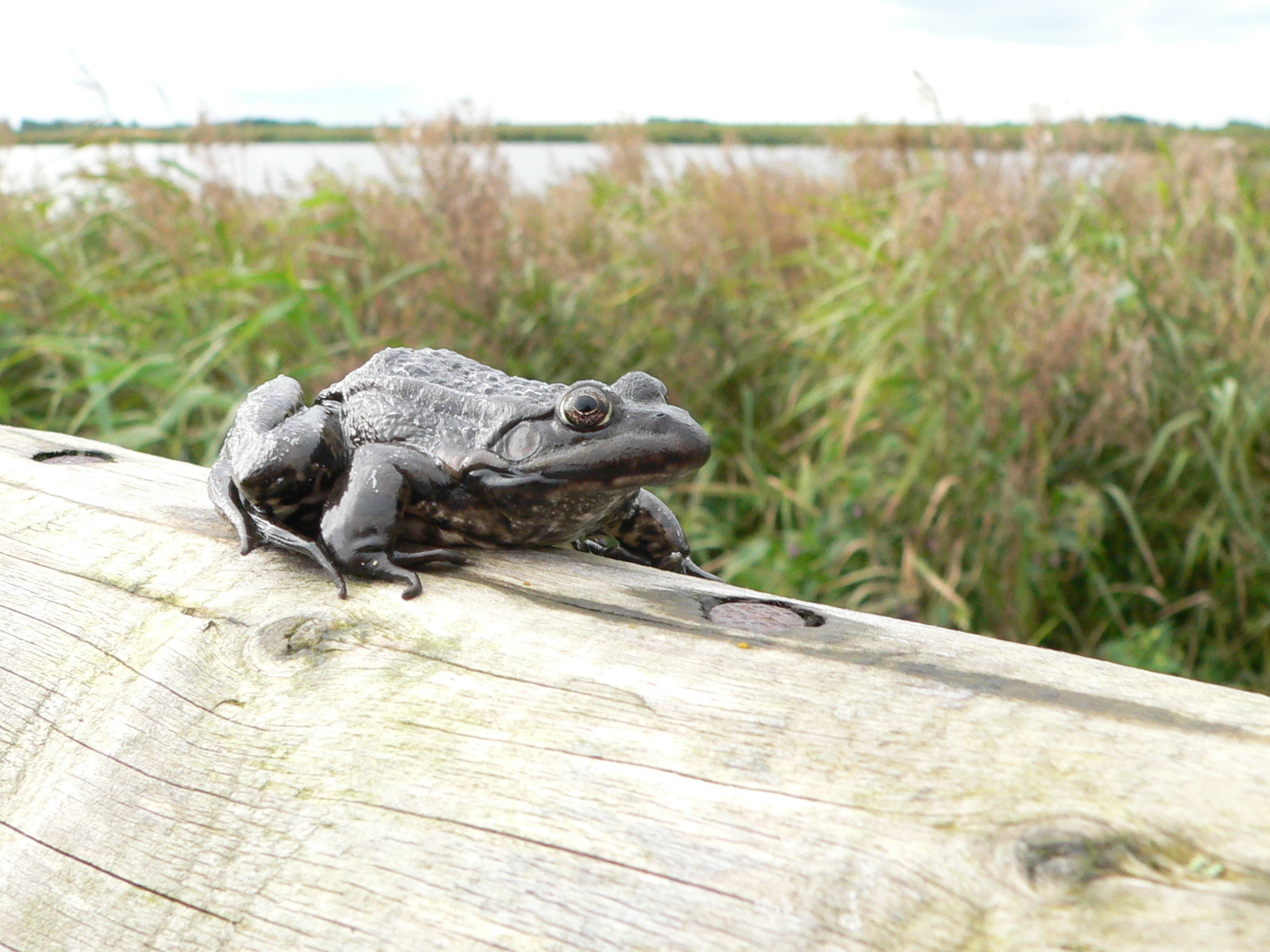 Very dark colored specimen of the Marsh Frog It is found at the border of het "Lauwersmeer" (Friesland, the Netherlands a typical habitat of this species visible in the background. Notice the long muscular hind legs.